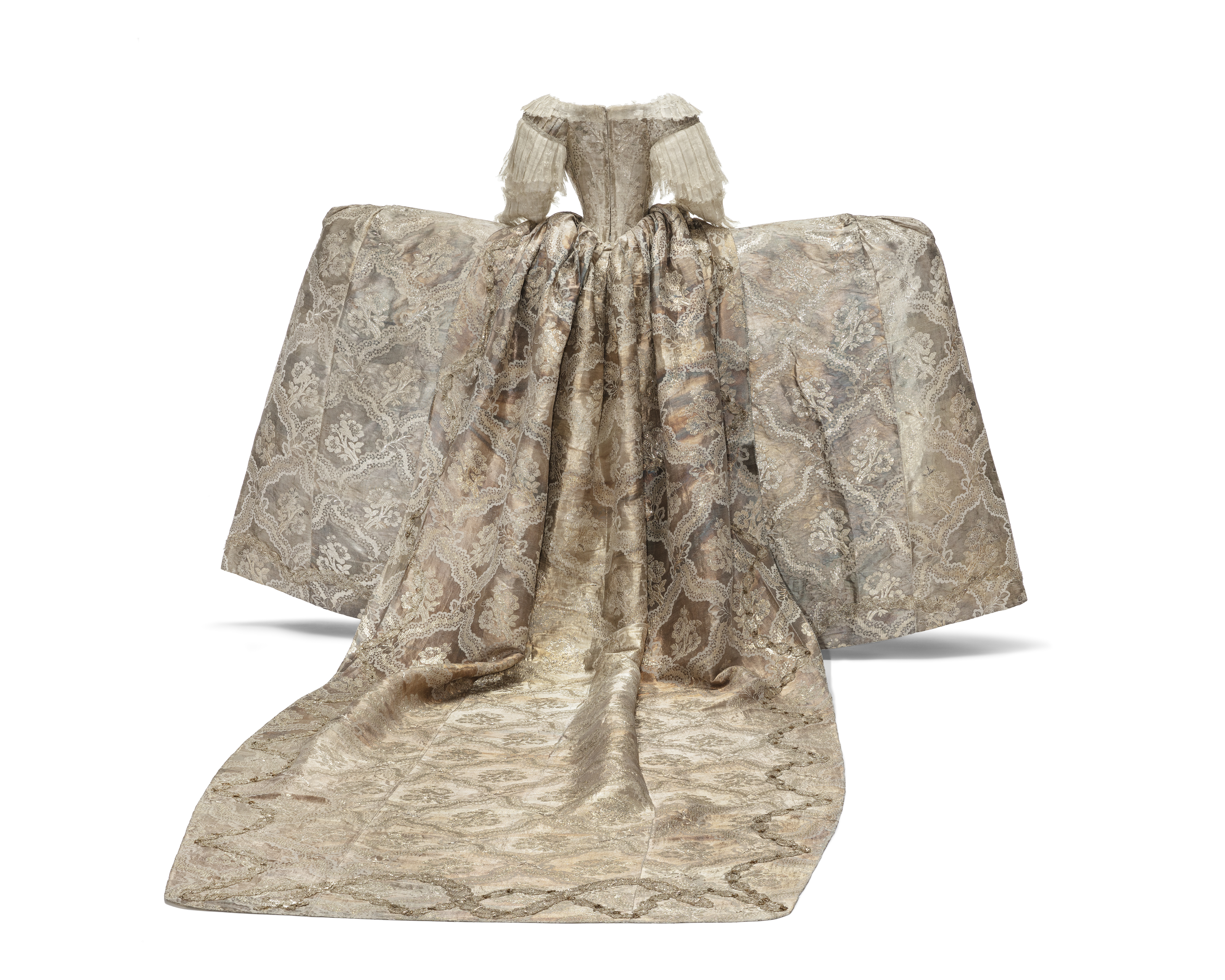 Sofia Magdalenas wedding dress, robe de cour, 1766. Panier